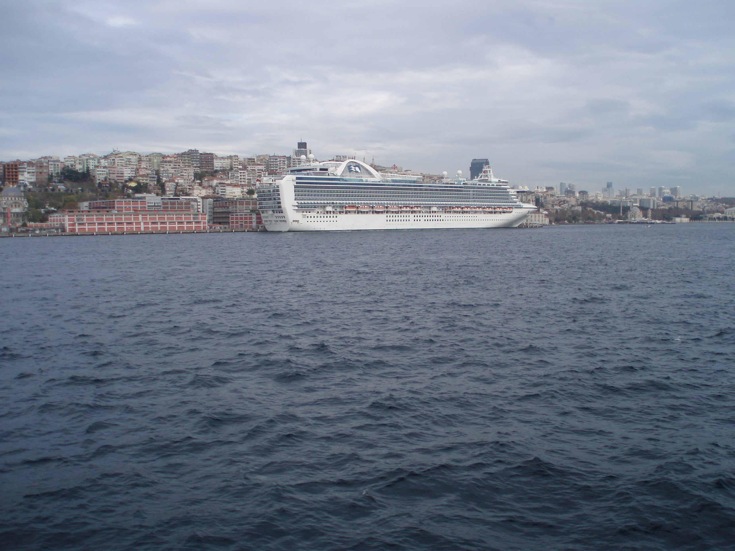 Port of Istanbul-Terminal building, with Ruby Princess